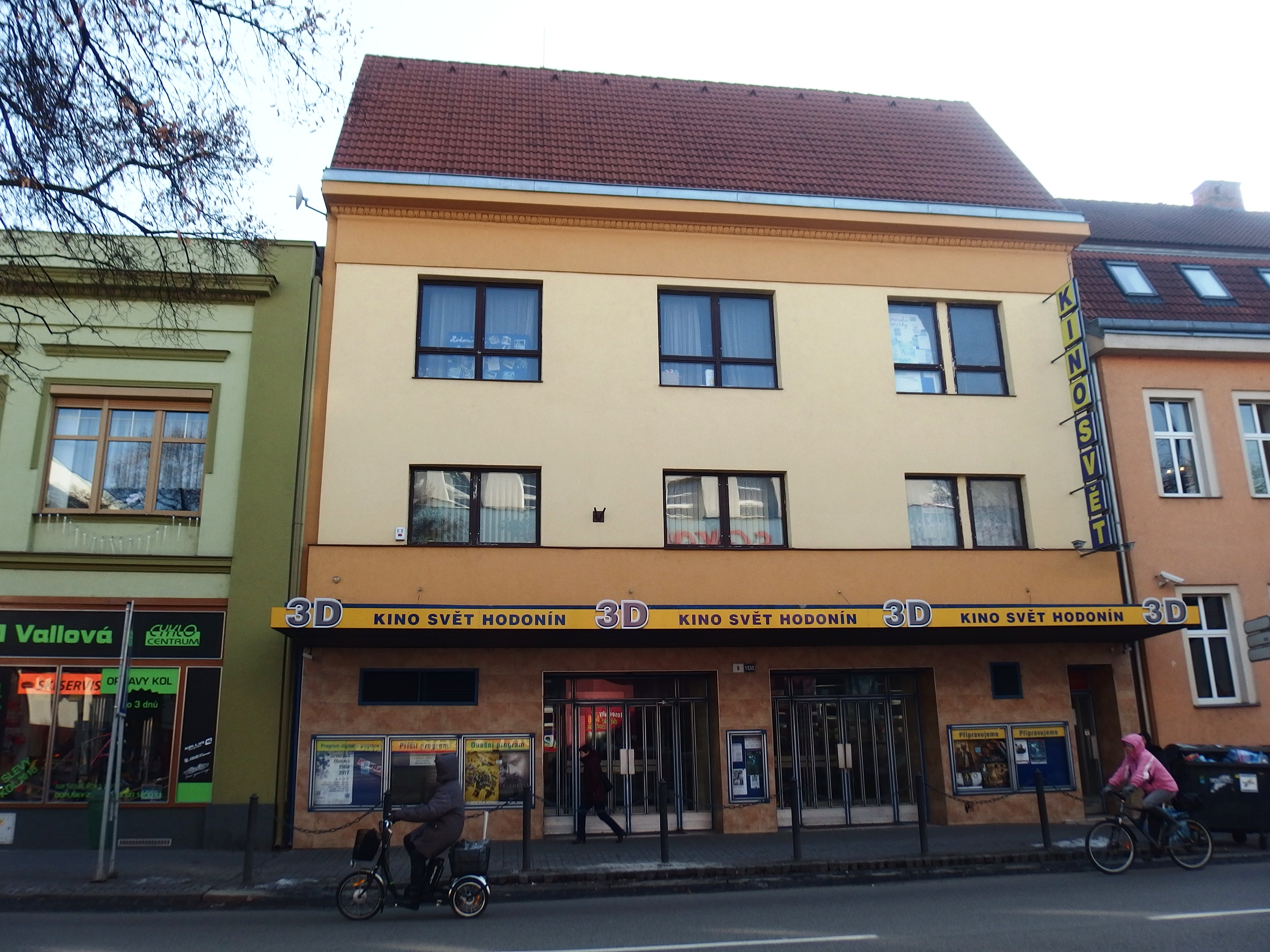 Hodonín, Czech Republic. Velkomoravská Street.